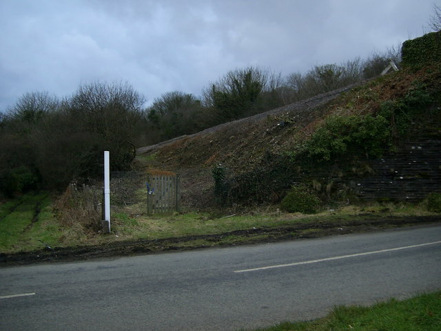 Access path for track maintenance personnel, Jordanston All of the vegetation has been cleared to provide a clear view of the railway line from the road, compared with the photograph taken in September 2008. Access to the uphill path is restricted to track maintenance personnel. Passengers did use the path to access the low level platform at the former halt (Jordanston Halt), until it was closed in April 1964.